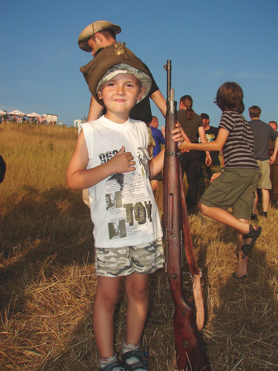 Most probably the Vz.24 rifle - Czech bolt-action rifle based on Gewehr 98